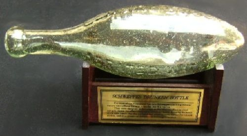 Schweppes 'Drunken' Bottle.